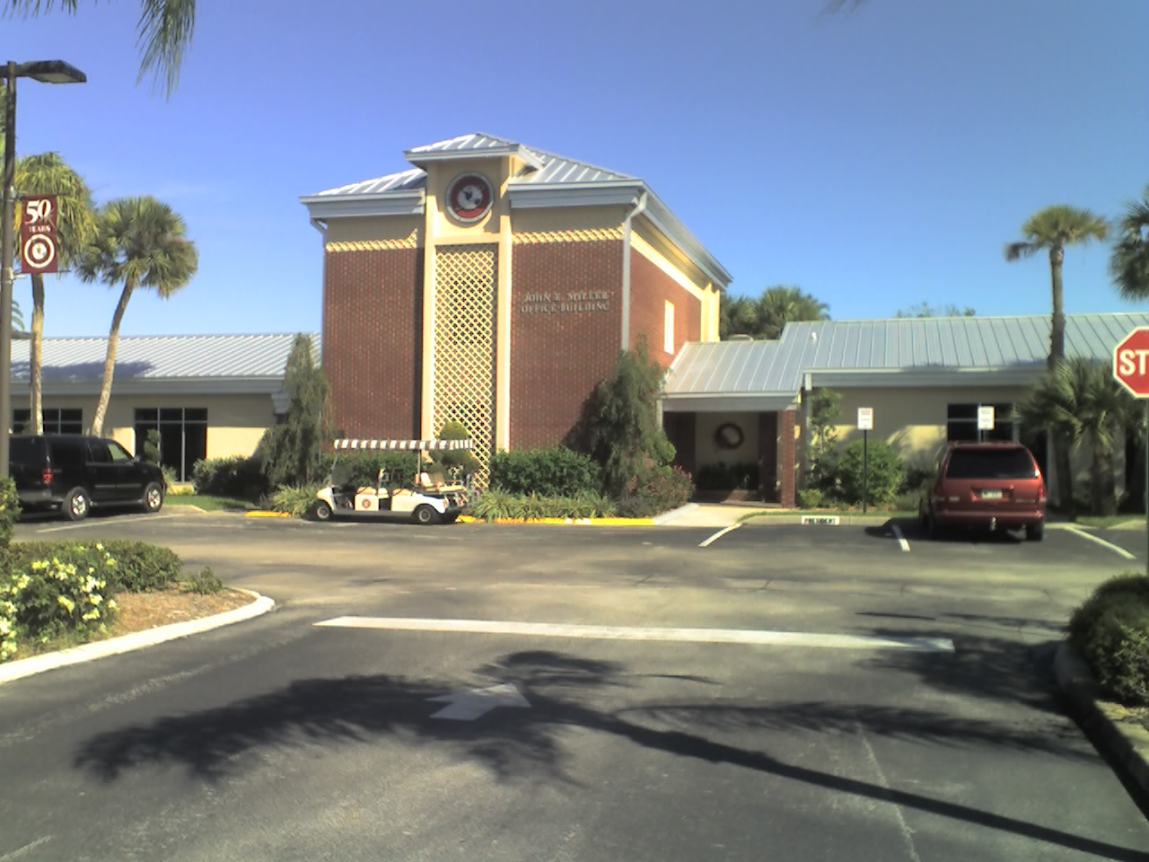 Florida Institute of Technology Miller Building close-up, home of the Office of the President as well as the Department of Information Technology.